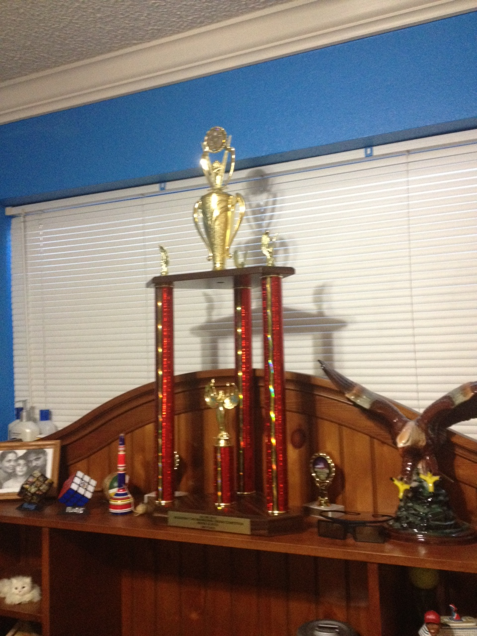 a picture of the 2012 SECME National Mousetrap Competition 2nd place trophy.